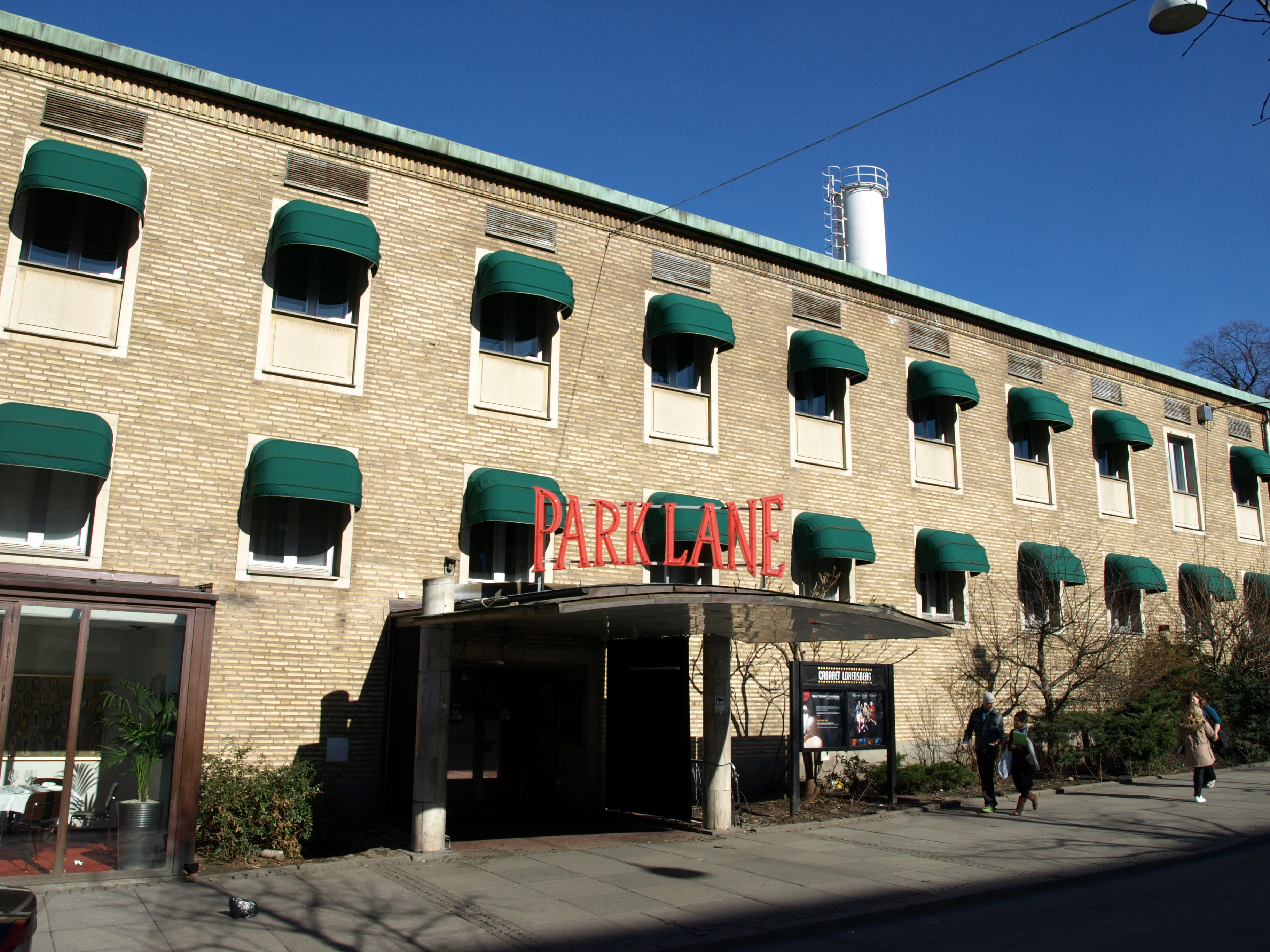 The nightclub "Park Lane" in Gothenburg, Sweden